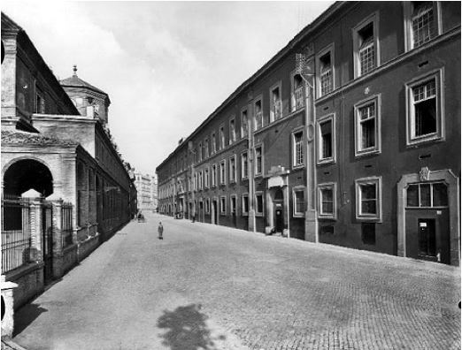 The southern side of the Ospedale di San Carlo in Roma, along Borgo Santo Spirito